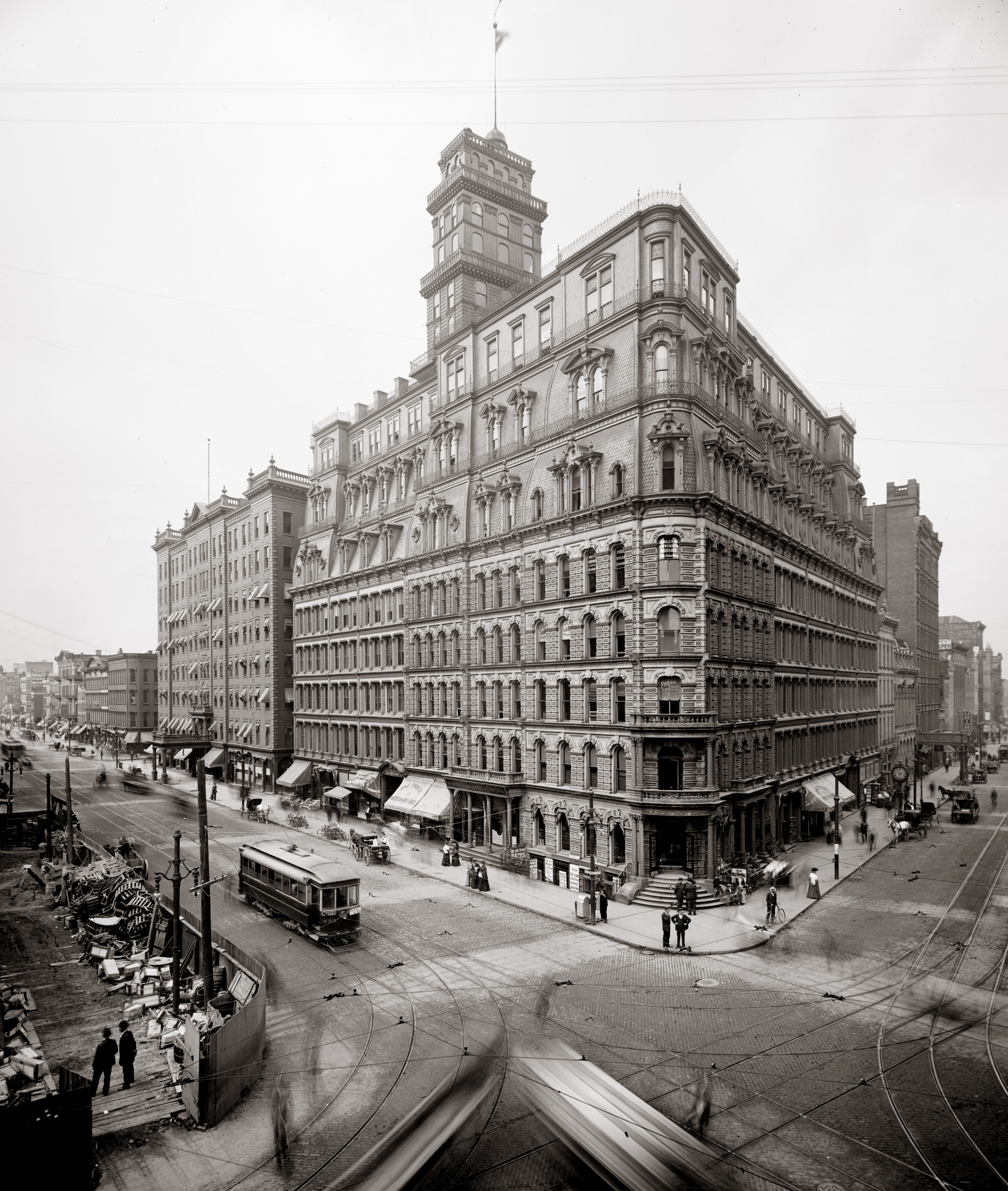 The Powers Building, constructed in 1869, is located at W. Main and State Streets in Rochester, New York. The building was designed by Andrew Jackson Warner and is listed on the national Register of Historic Places.